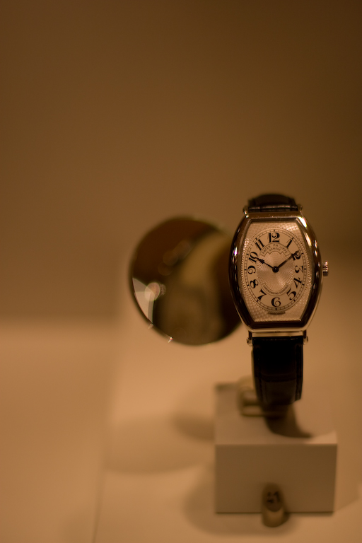 Tiffany's Patek Philippe Watch Collection, in New York, on the opening of their Patek Philippe watch store.